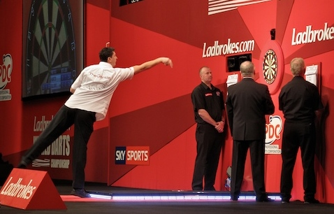 the Gentle Giant, Mensur Suljovic throws... London - December 2009.